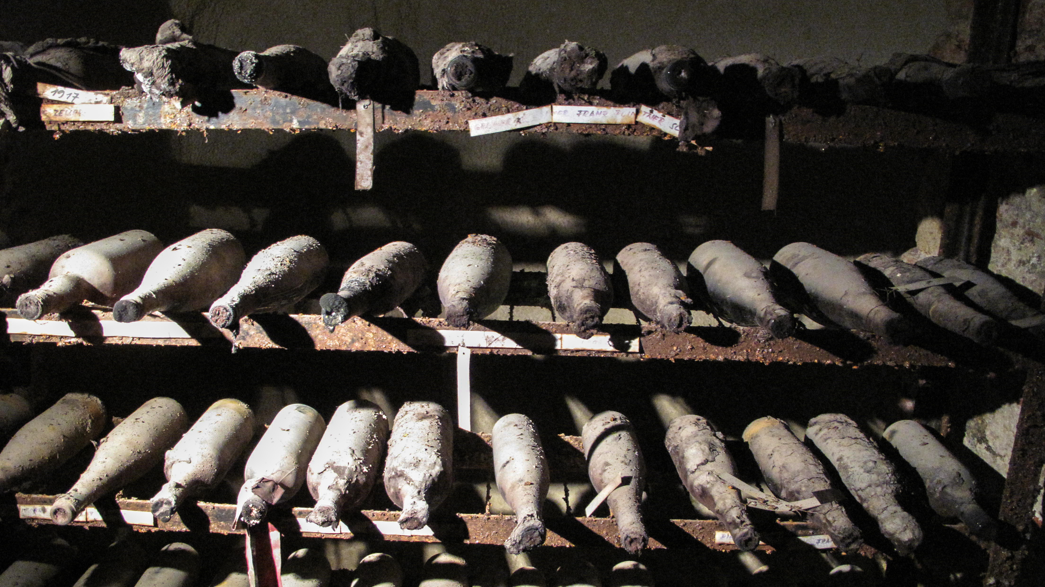 Wine aging in a cellar in Austria.